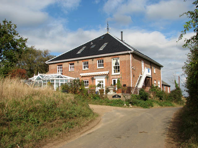 Claxton Opera